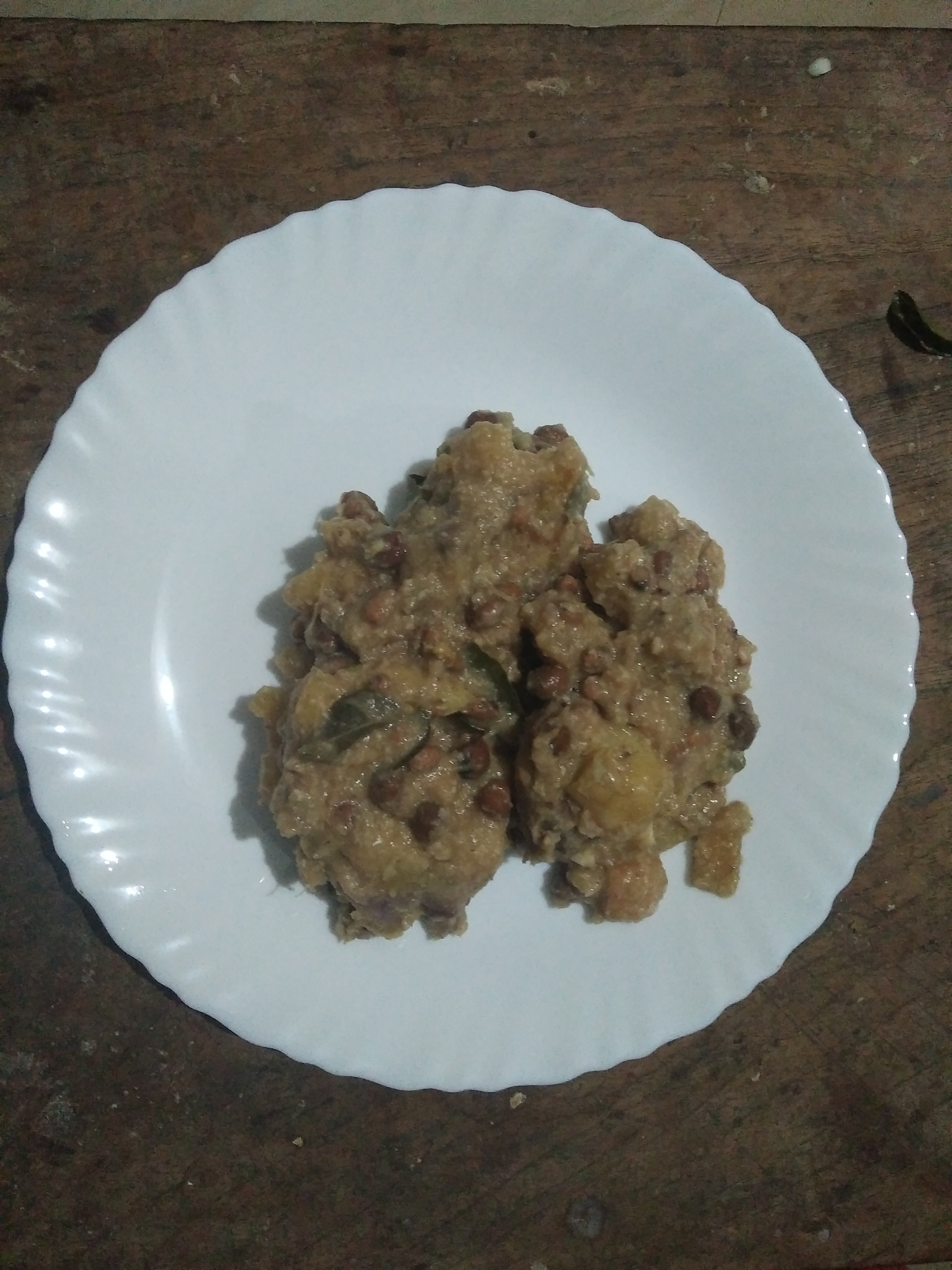 initiatives puzhukku from kerals